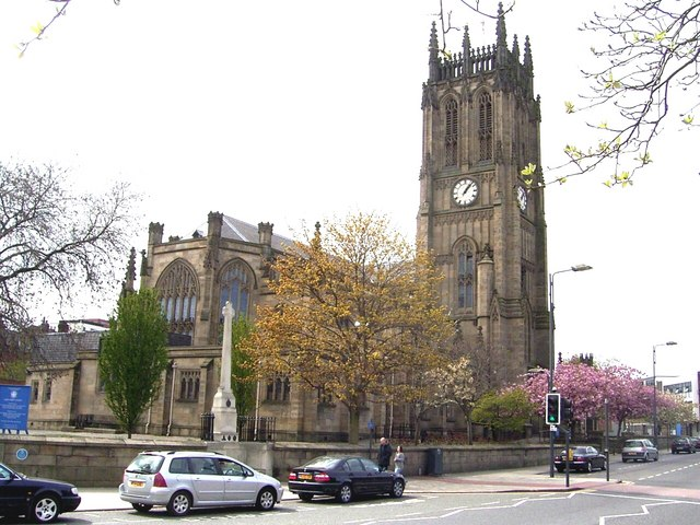 St Peters Kirkgate Leeds Built in 1840 by R.D.Chantrell and has a superb interior.